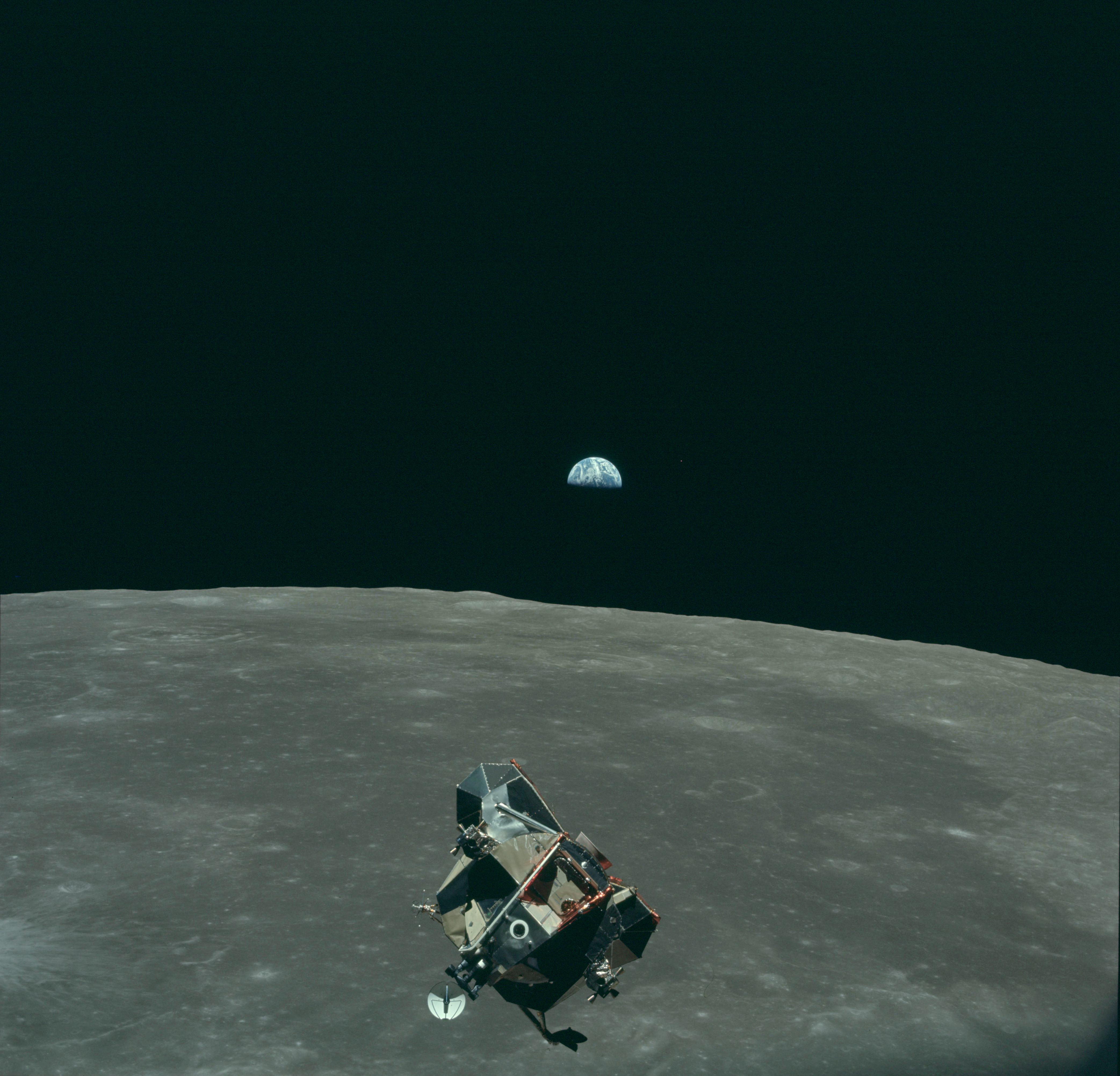 Earth, Moon and Lunar Module, in lunar orbit after return from the moon and before rendezvous with the Apollo 11 Command/Service Module. Mars is visible as the red dot on the right-hand side of Earth. AS11-44-6643.